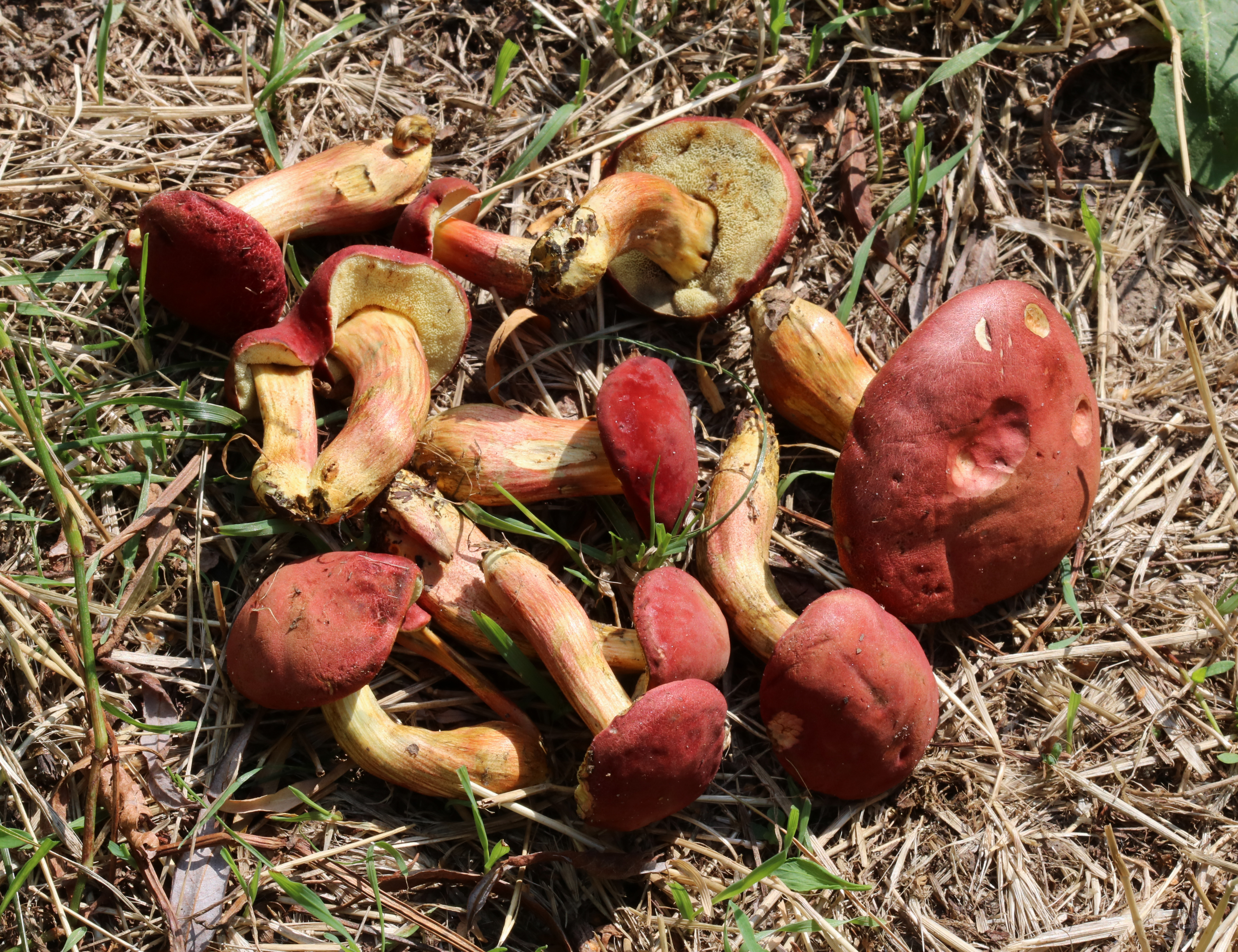 Ruby bolete (Hortiboletus rubellus). Ukraine, Vinnytsia Oblast, Vinnytsia Raion.